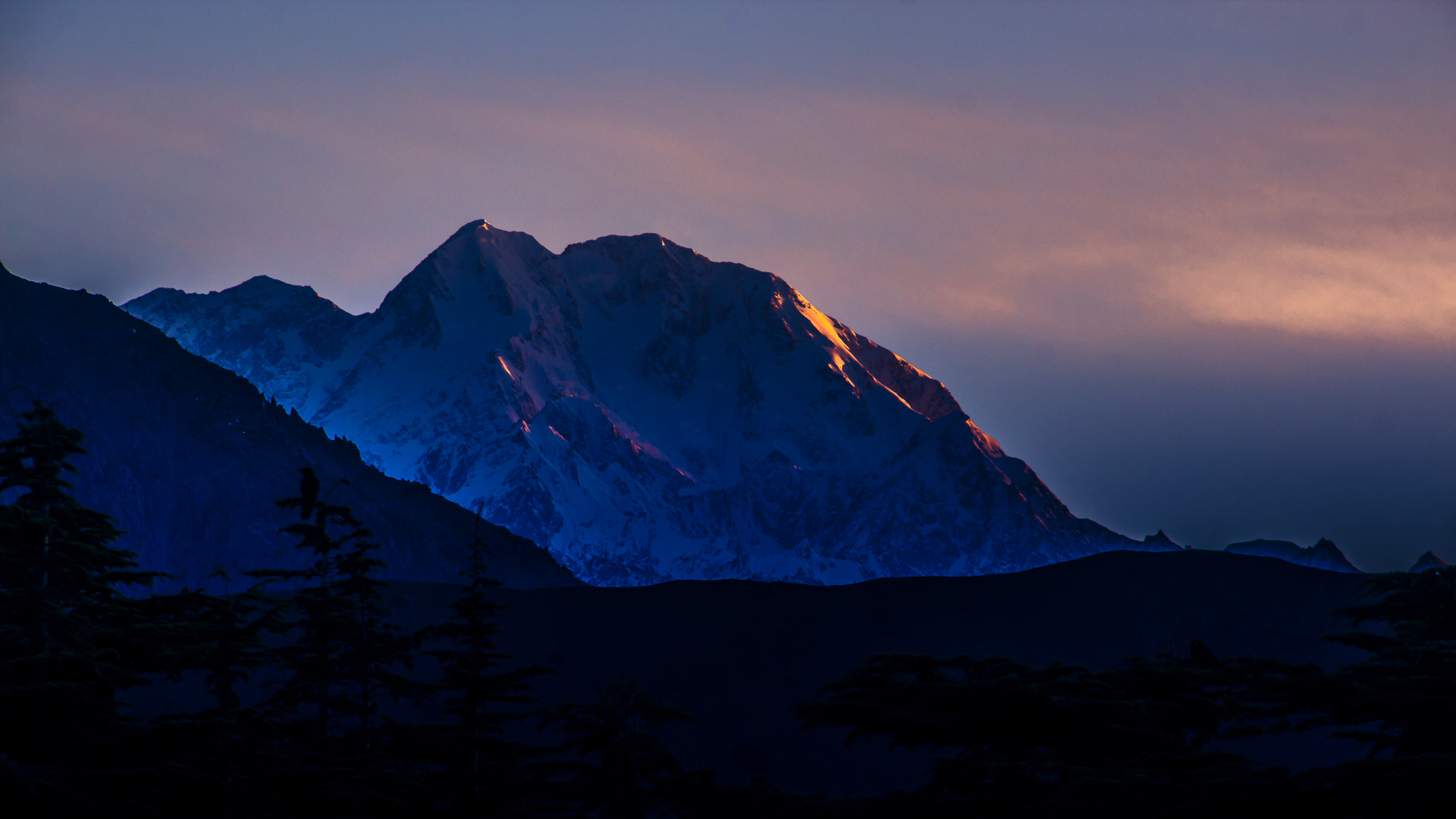 Rising 7,707 meters above sea level, Tirich Mir is the highest mountain located in the Hindu Kush mountain range. It is situated in Chitral, Khyber-Pakhtunkhwa, Pakistan. Tirich Mir gets its name from the village Tirich where the peak is located. The Khowar speaking people of the village are highly hospitable and always available to lend you a helping hand in your expedition endeavor. The route to Tirich Mir is very risky, providing an opportunity for extreme adventure lovers to put their dexterity and passion to the test. Some local legends suggest that Tirich Mir is a kingdom of Djinns, fairies, wizards and witches who wouldn’t let human beings into their area.Stories of mountaineers and tourists falling to their death and never being found are quite common when it comes to Tirich Mir. The crevasses are extremely dangerous and deep. Moreover, the glacier is extremely difficult to cross and you must cross it if you aim to climb Tirich Mir.